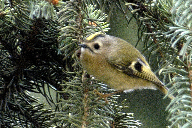 Regulus regulus from Commanster, Belgian High Ardennes .